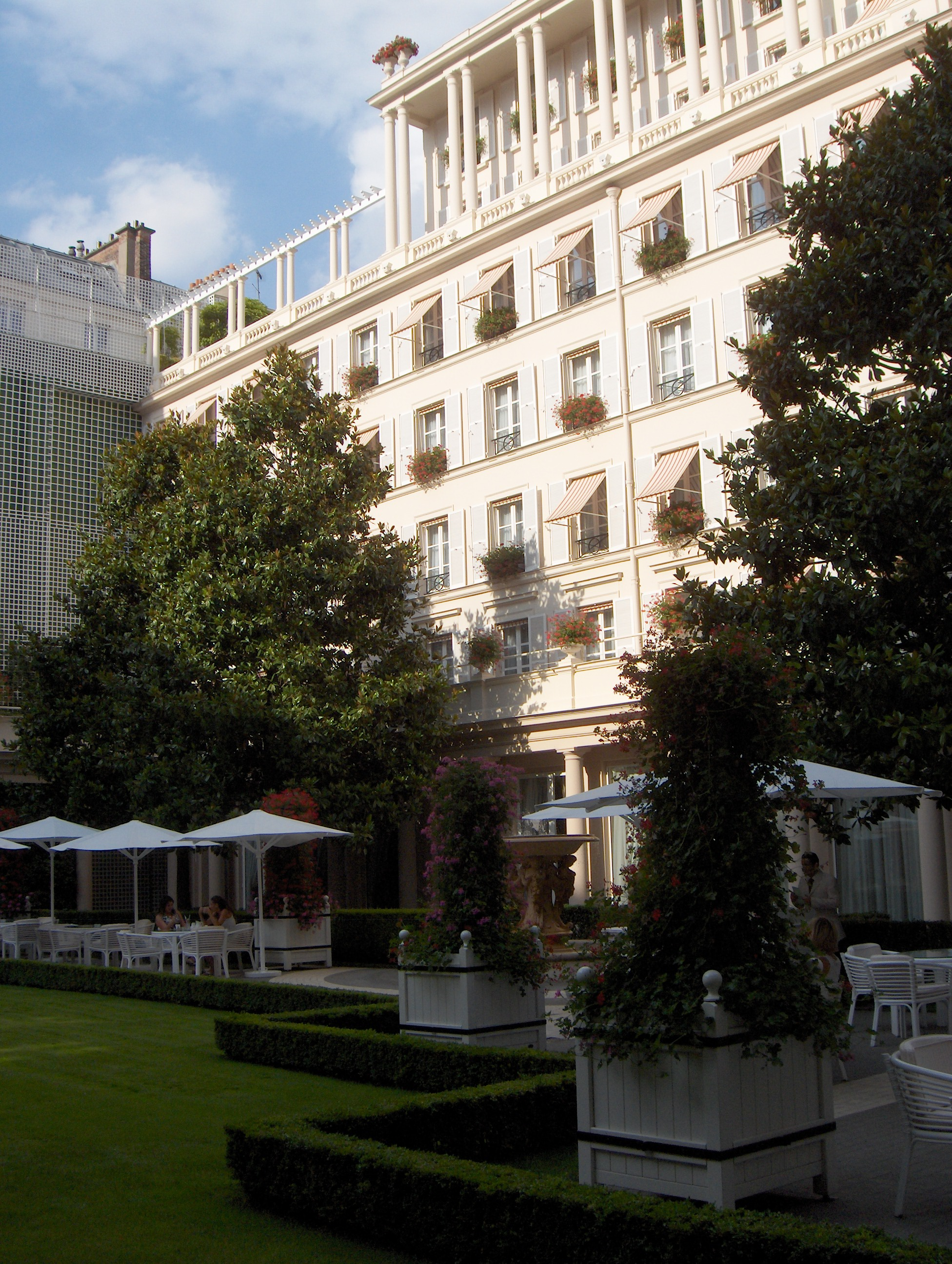 Hôtel Le Bristol Paris, Paris